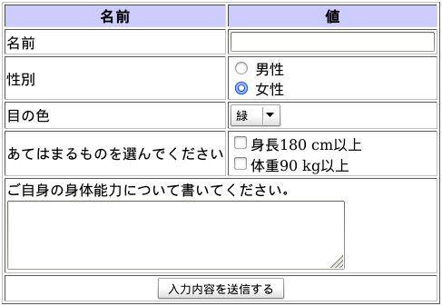 A sample form in HTML and generated with Mozilla Firefox. This form shows a combined sample of (in order from top to bottom): a text box a pair of radio buttons a select box a pair of check boxes a text area a submit button